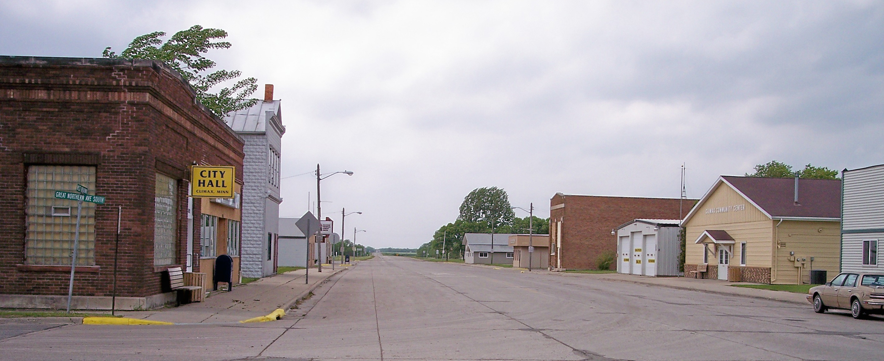 Broadway (Minnesota State Highway 220) in Climax, Minnesota. City Hall is at left.